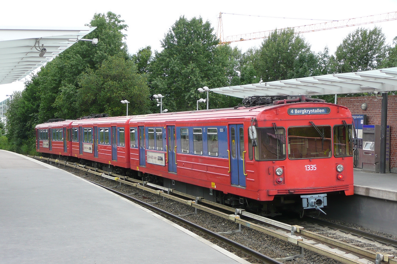 T1300 train of the Oslo Metro on Line 4 towards Bergkrystallen